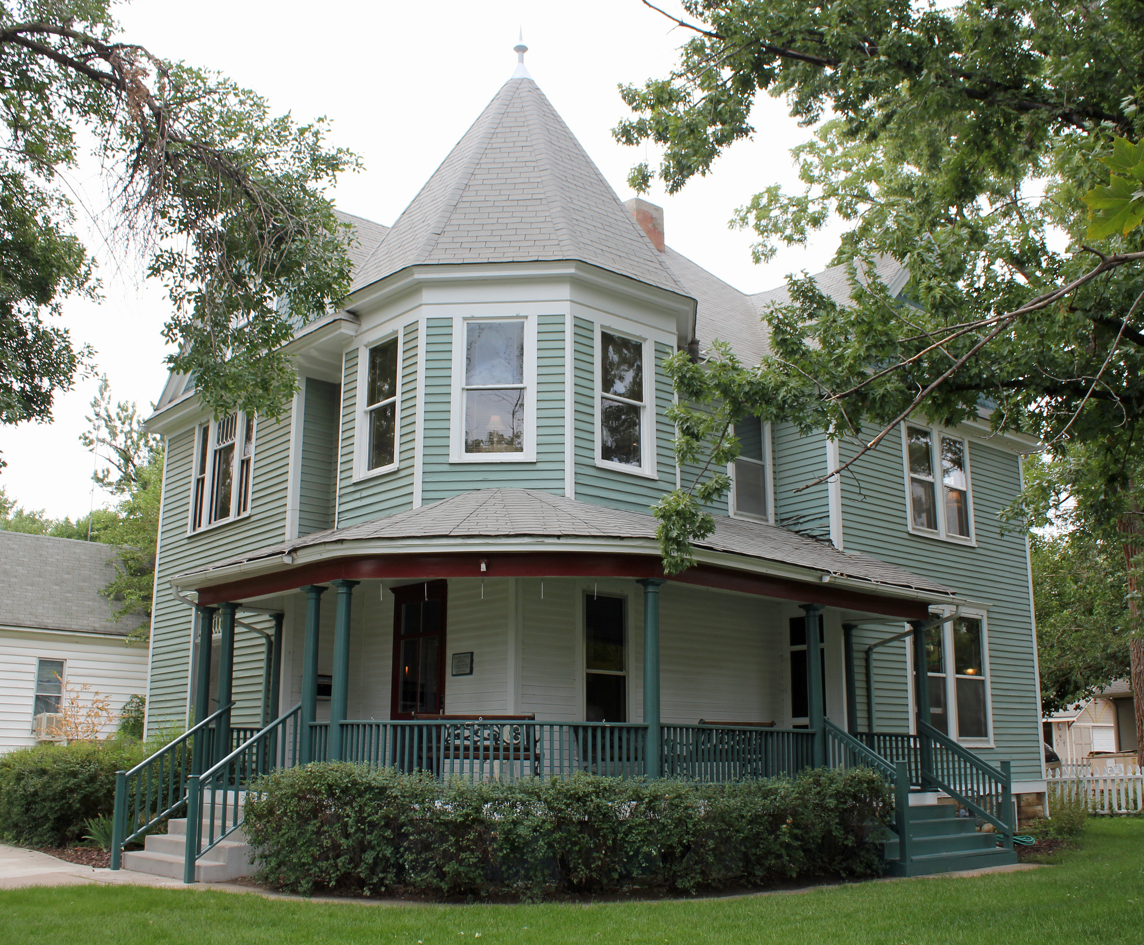 The Glazier House, located at 1403 10th Avenue in Greeley, Colorado. The property is listed on the National Register of Historic Places.